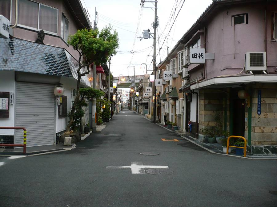 Tobitashinchi, Nishinari, Osaka